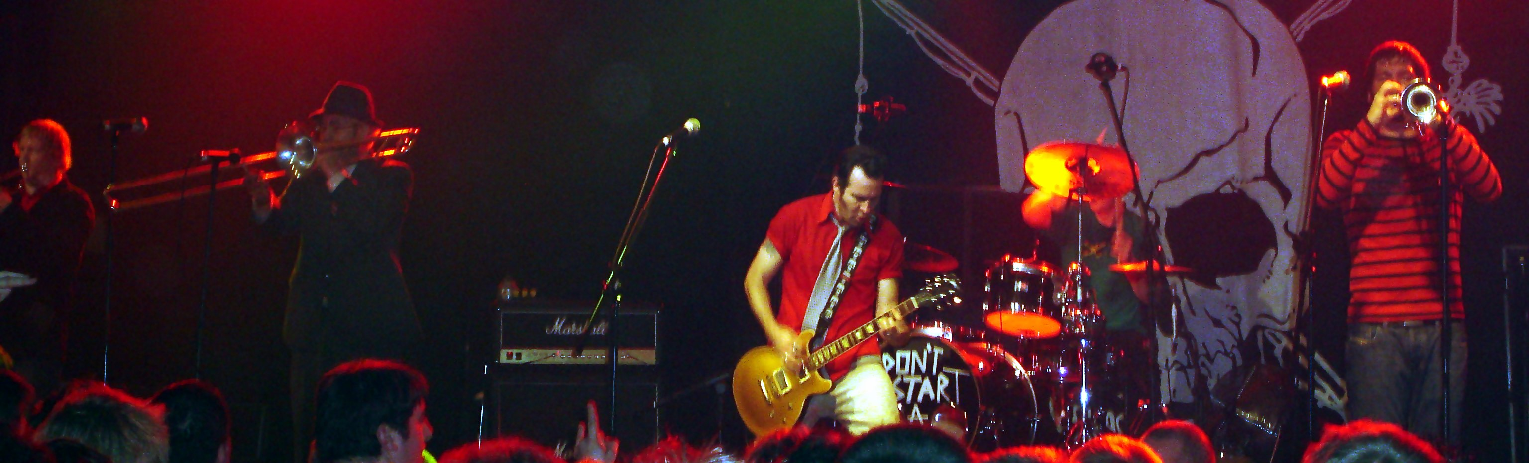 Reel Big Fish performing at Keele University